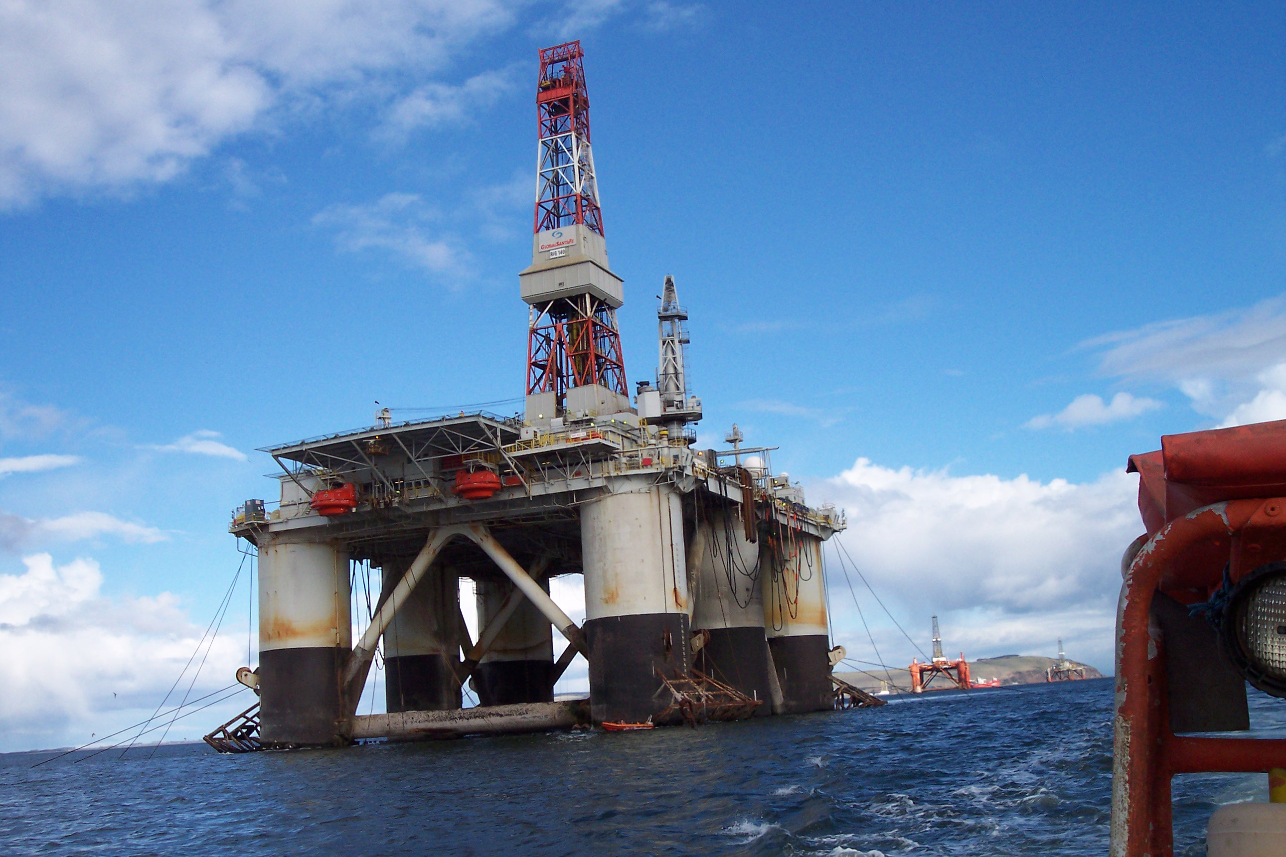 Semi submersible drilling rig GSF Rig 140, built at Daewoo Shipbuilding at the Daewoo Okpo Korea shipyard in 1983